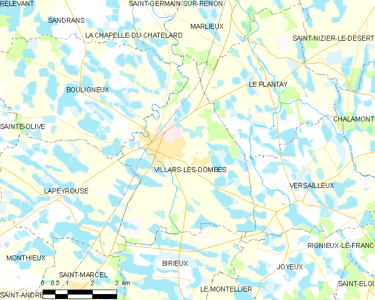 Map of French commune: Villars-les-Dombes Map commune FR insee code 01443.png